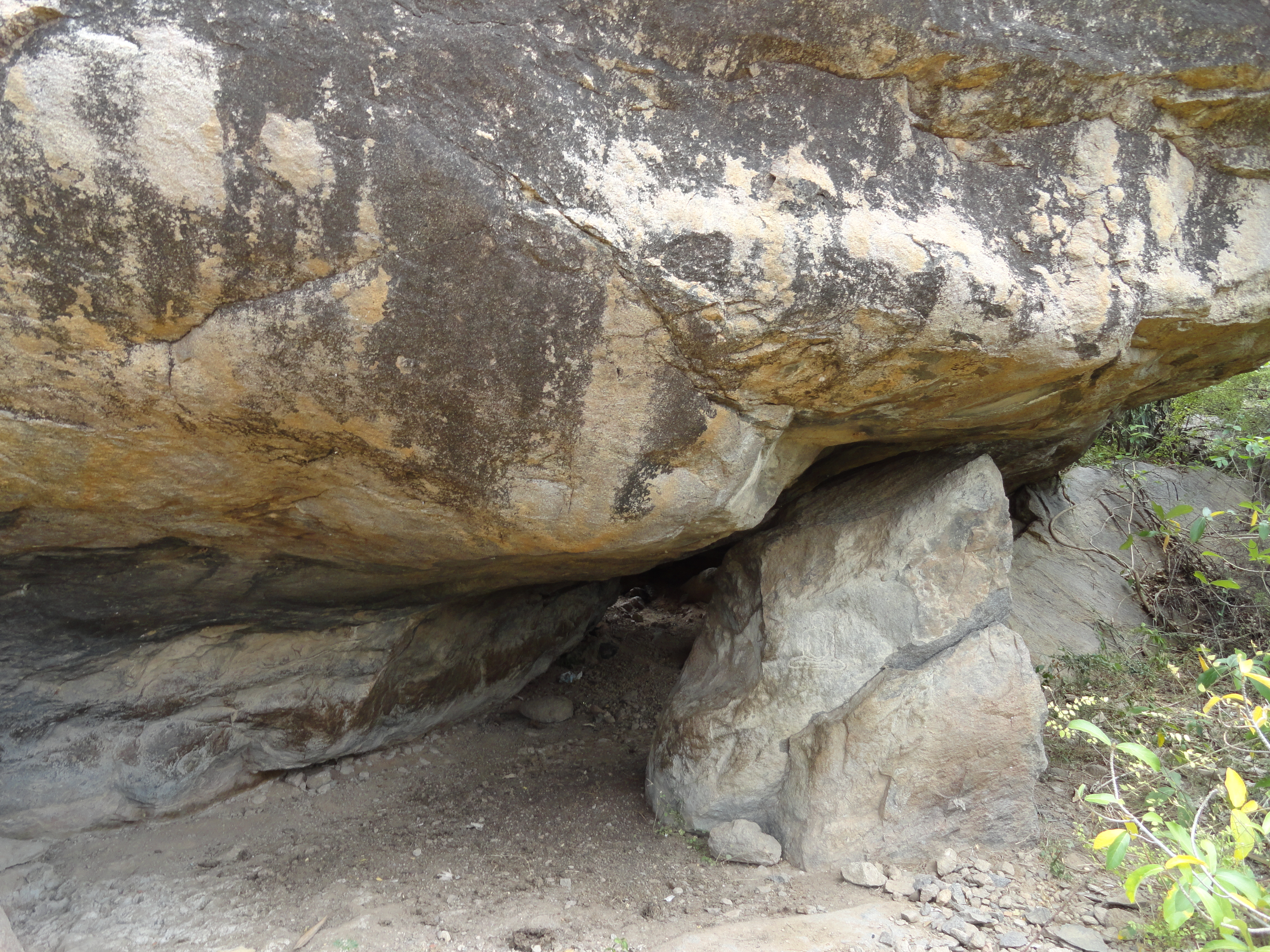 Photograph of cave and carvings at thirakoil